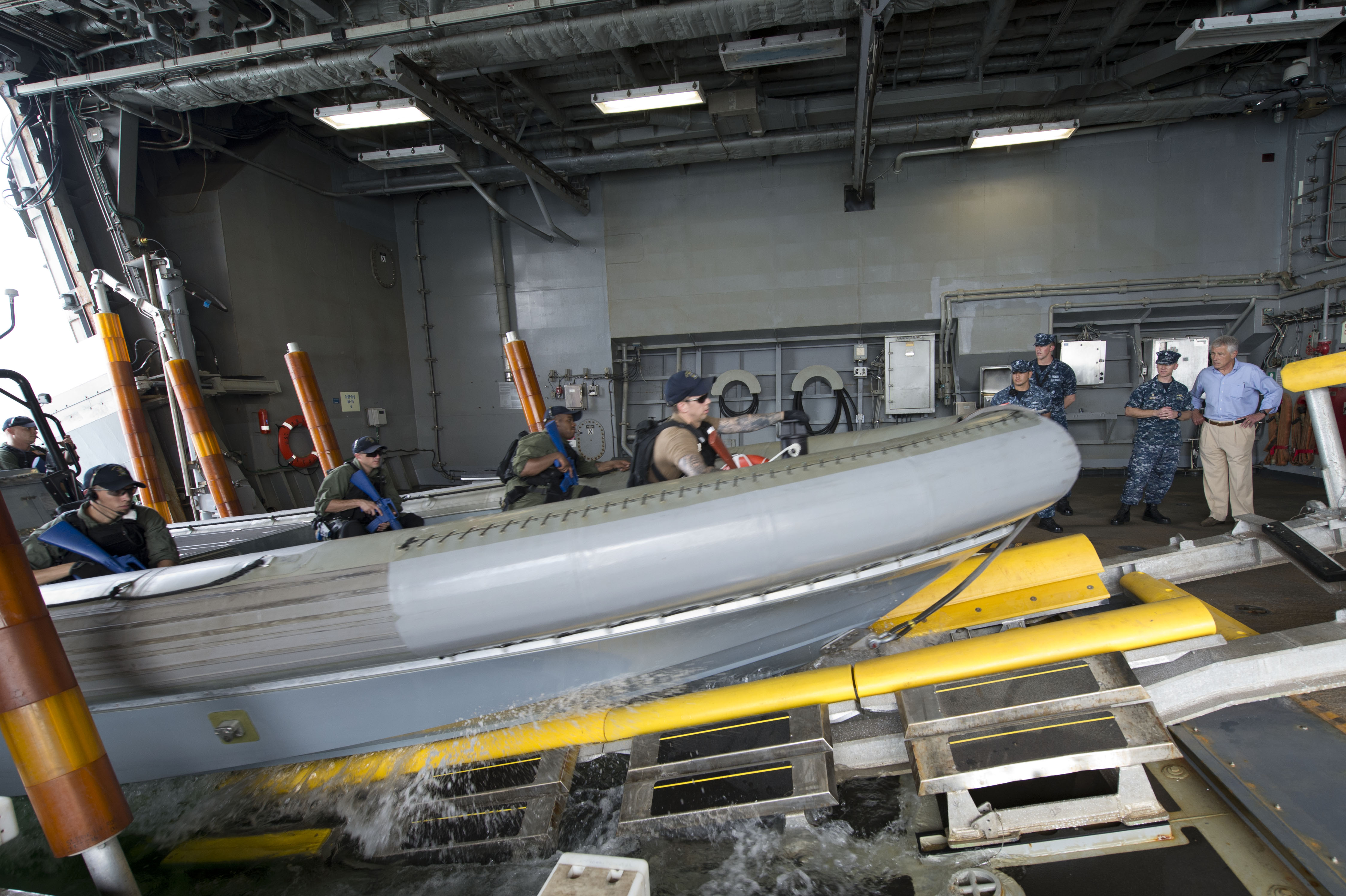 U.S Secretary of Defense Chuck Hagel, right, observes a waterborne mission demonstration on board the USS Freedom (LCS 1) in Singapore, June 2, 2013. Hagel toured the ship and visited with sailors.